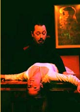 Angelo seduces Isabella in a Los Angeles production of Measure for Measure.